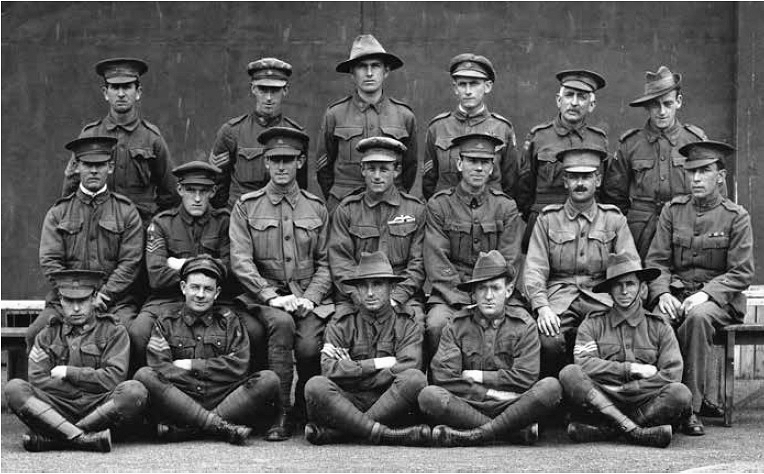 Warrant officers and sergeants of the Australian Air Corps—Honorary Warrant Officer Arthur Murphy centre of middle row